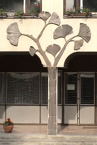 Ginkgo. Relief of Avas Grammar School, Miskolc, Hungary